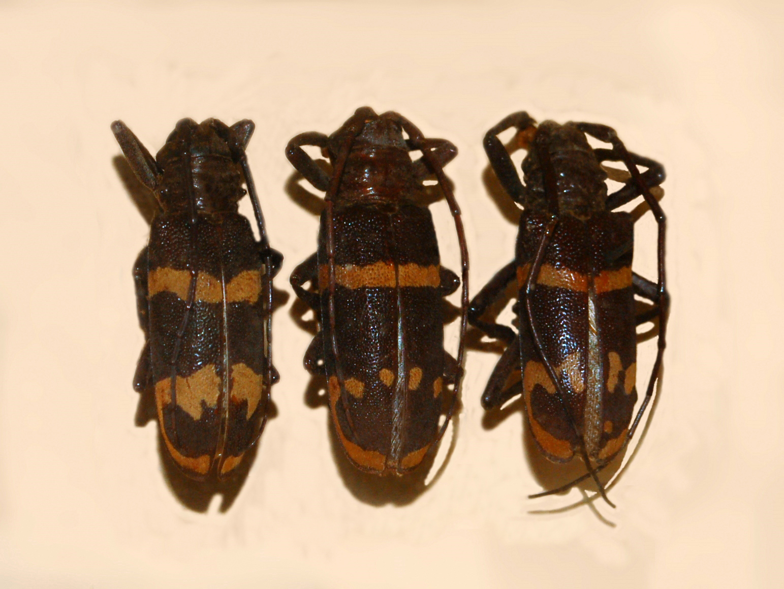 Ceroplesis militaris from Eritrea